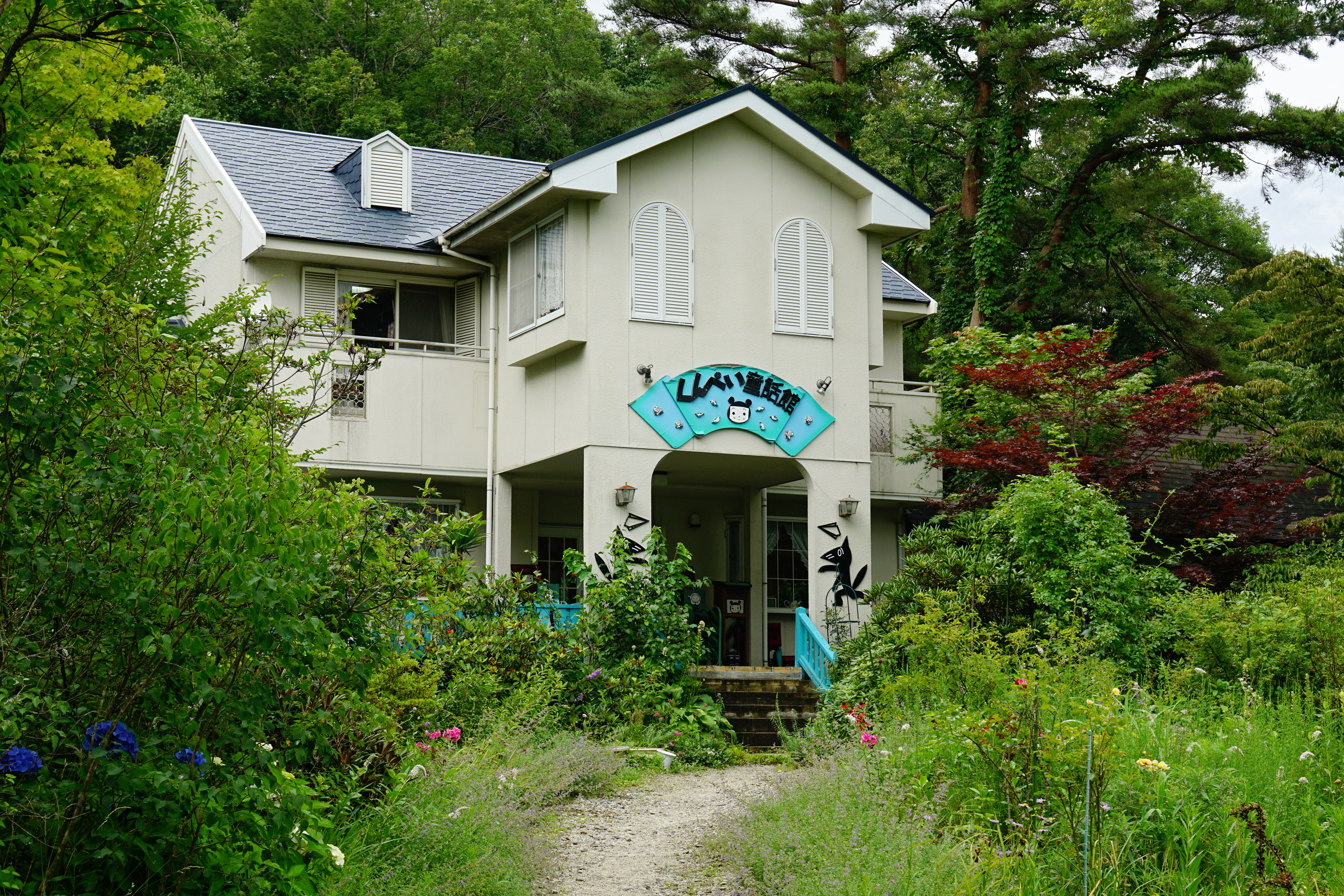 Kunpei Fairy Story Museum in Hokuto, Yamanashi prefecture, Japan.